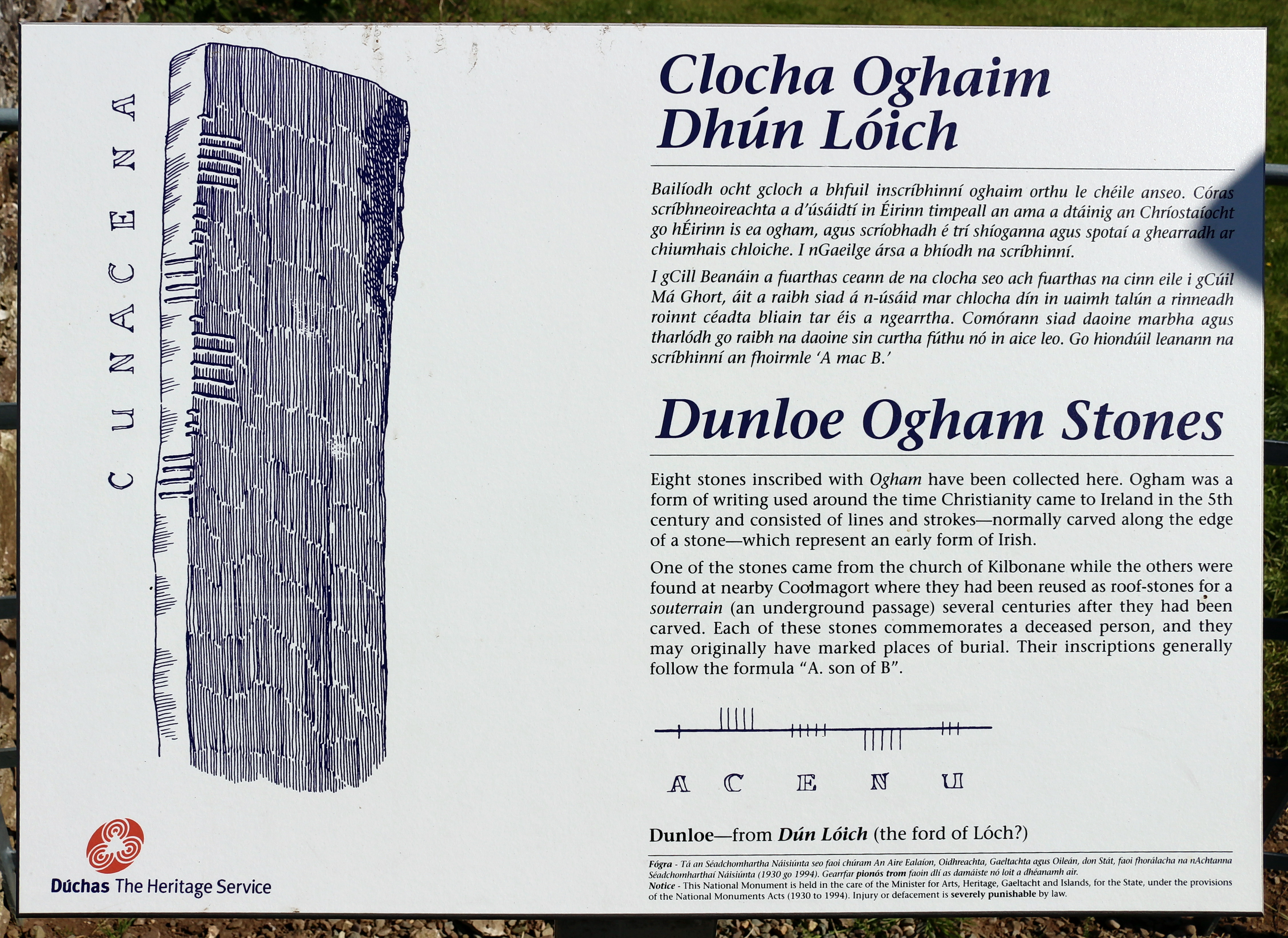 Sign and drawing of Dunloe Stone CIIC 199. Coolmagort Ave, Beaufort, Co. Kerry, Ireland